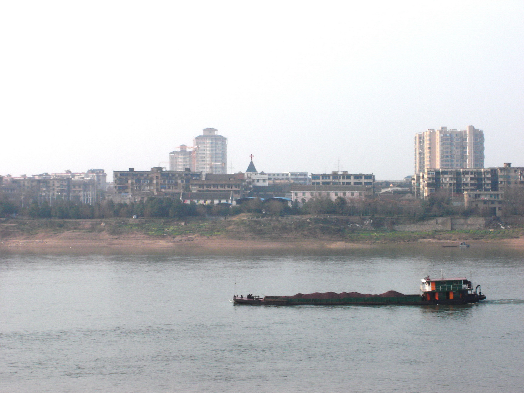 Church of Xiangtan Christian Council in old town, lies on the riverside of xiangjiang,. 湘潭市基督教协会教堂位于湘江边的老县城城正街。